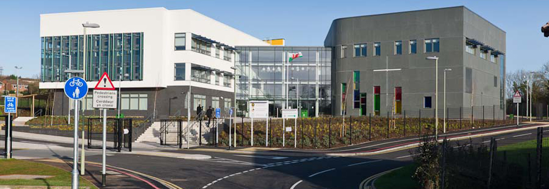 Archbishop